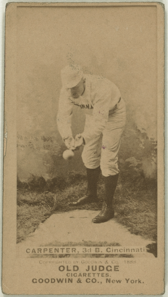 Title: Hick Carpenter, Cincinnati Red Stockings, baseball card portrait Abstract/medium: 1 photographic print : albumen.